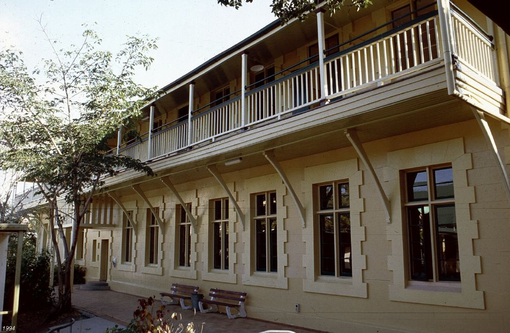 Brisbane State High School, Block H (1994), formerly Brisbane South Girls and Infants School